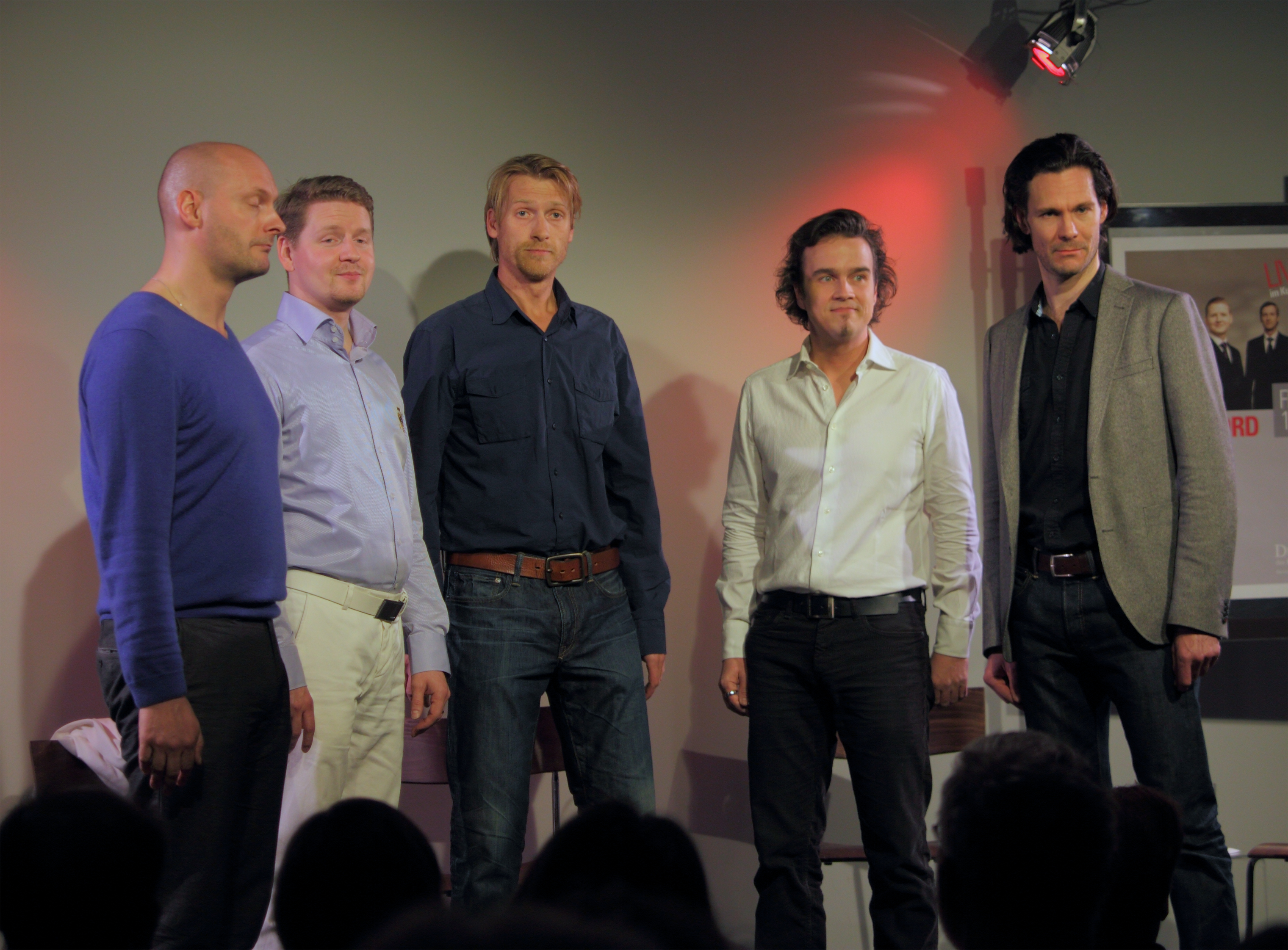 German vocal group “Ensemble Amarcord” from Leipzig